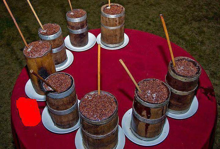 Tongba (Nepali: तोङवा) is a fermented millet-based alcoholic beverage found in the eastern Himalayan region of Nepal, Bhutan, Darjeeling and Sikkim.